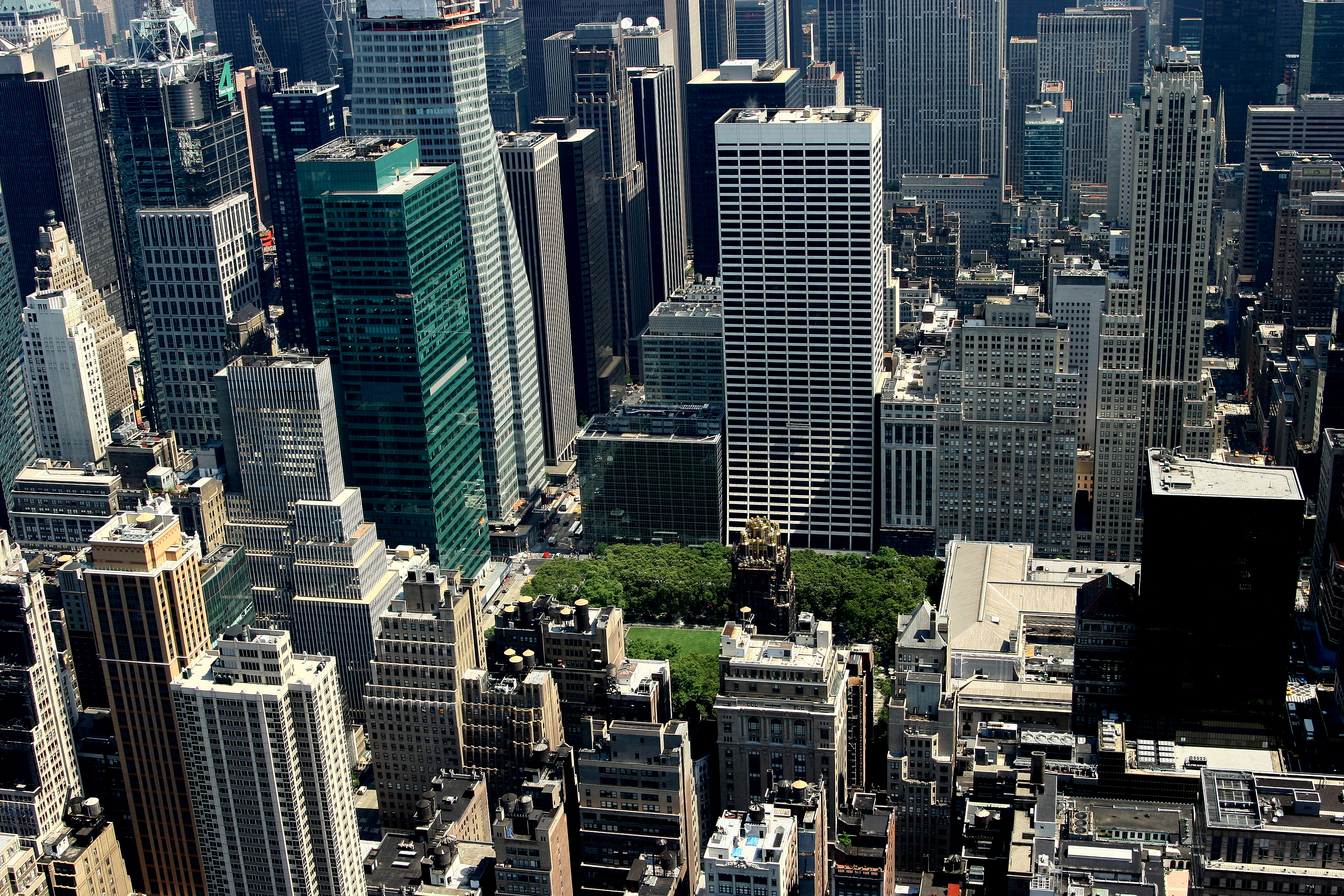 Bryant Park, Manhattan, New York City, USA